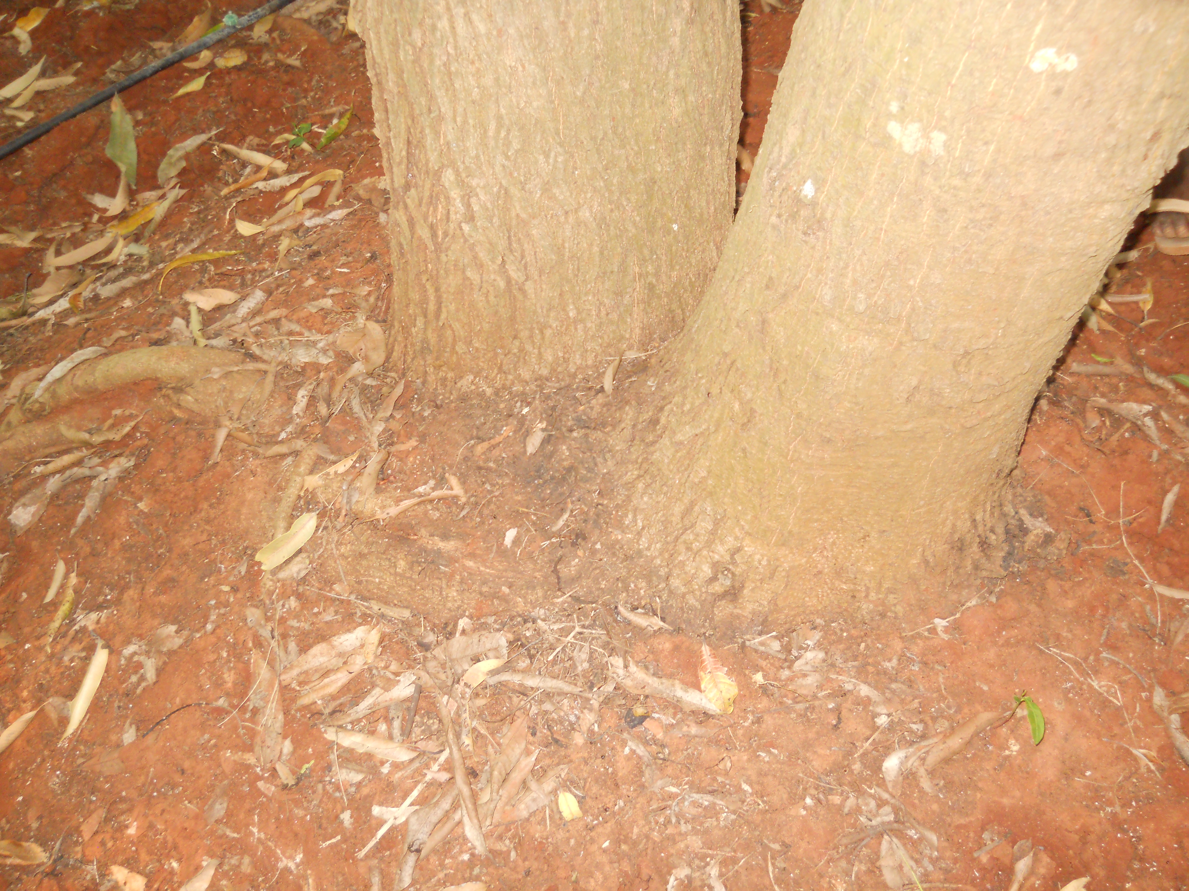 Mango grafting, one branch is original (Root Stock), other branch is duplicate (Scione)